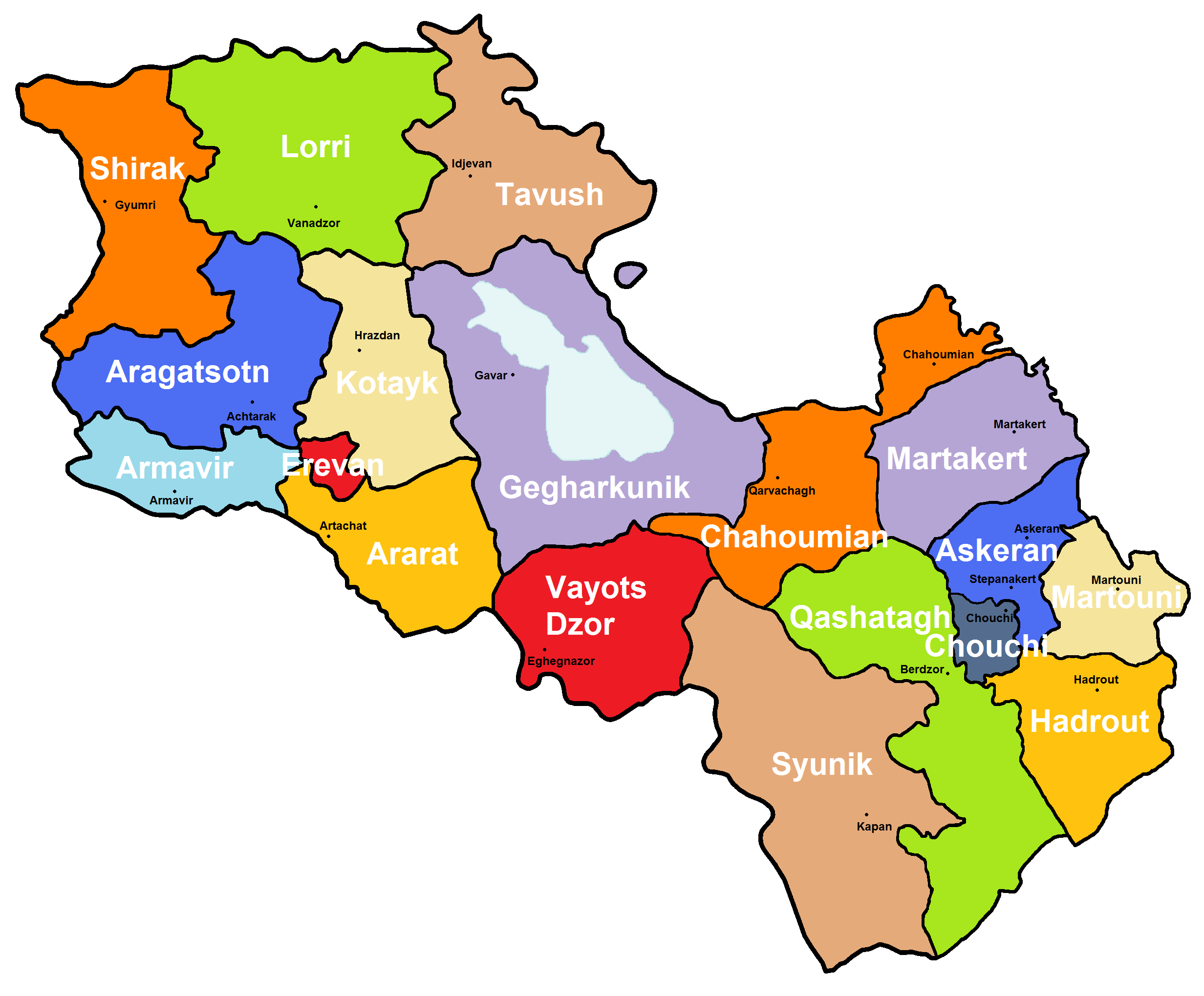 Miatsum (Armenian Միացում - «unification») - the idea, based on the desire of Armenians of Nagorno Karabakh to join the united Armenian state, including the territory of the Republic of Armenia and Nagorno-Karabakh Autonomous Oblast as well as the occupied lands of the Republic of Azerbaijan. Today Miatsum actually implemented, but has not received international recognition.